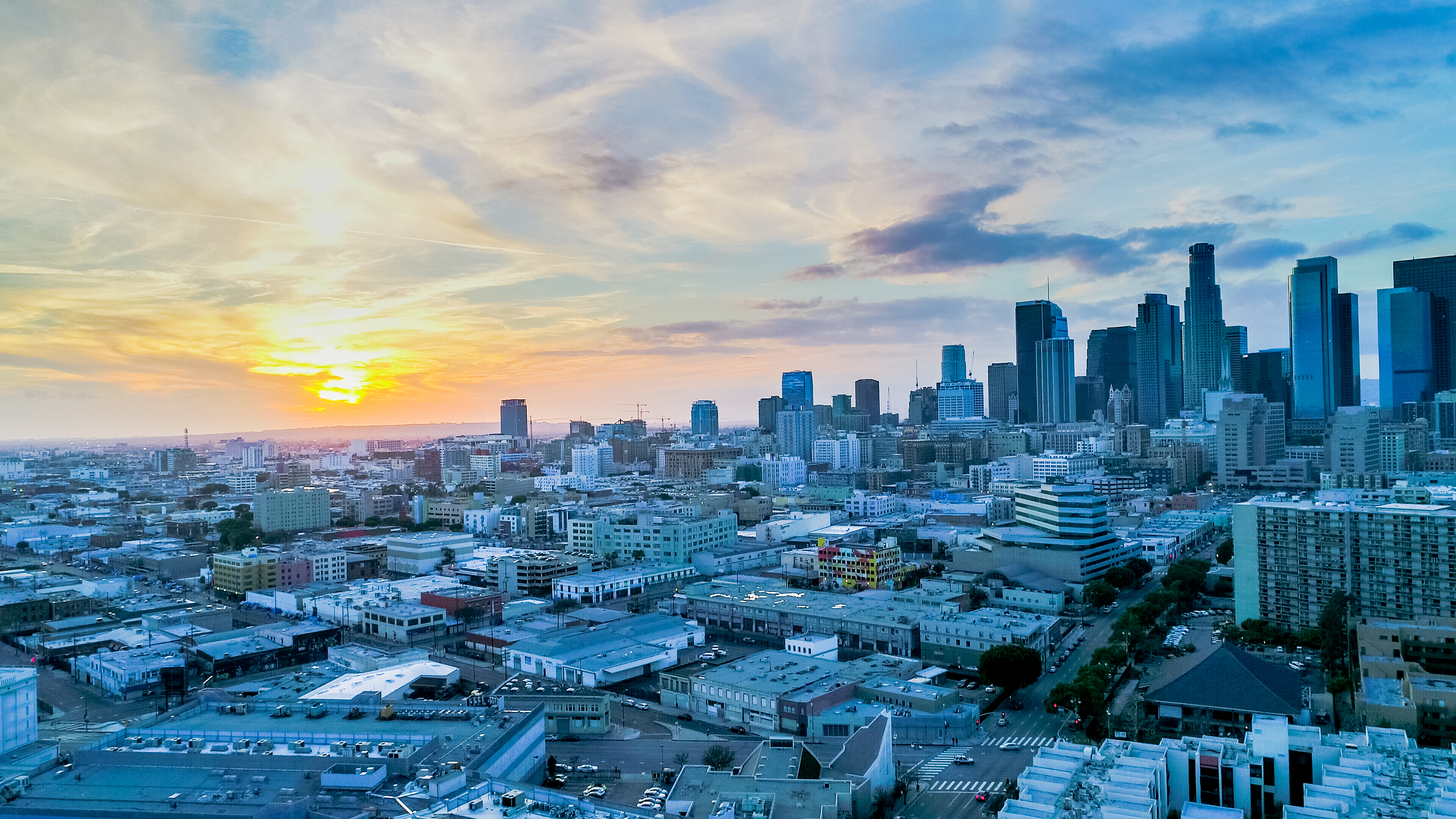 Air photography of Los Angeles' sky by Henrique Pinto.